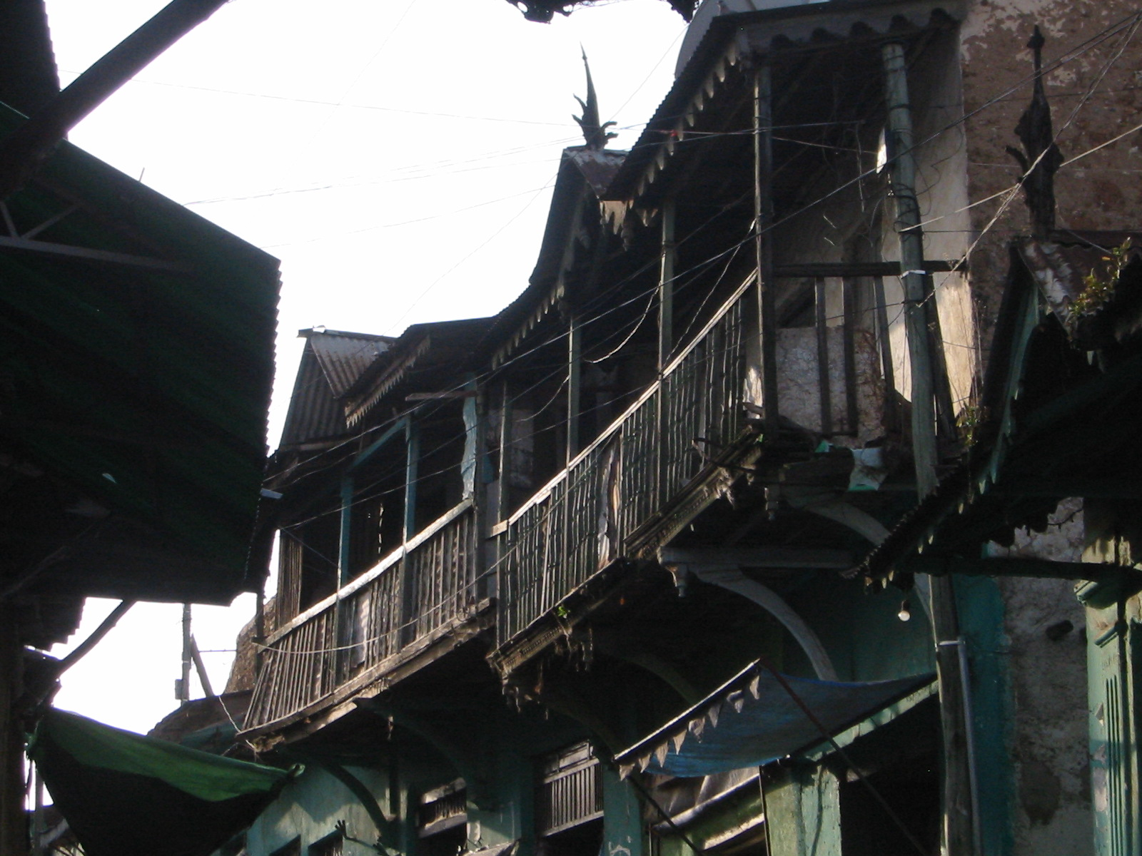 Wooden balconies on the streets of Harar, Ogaden.